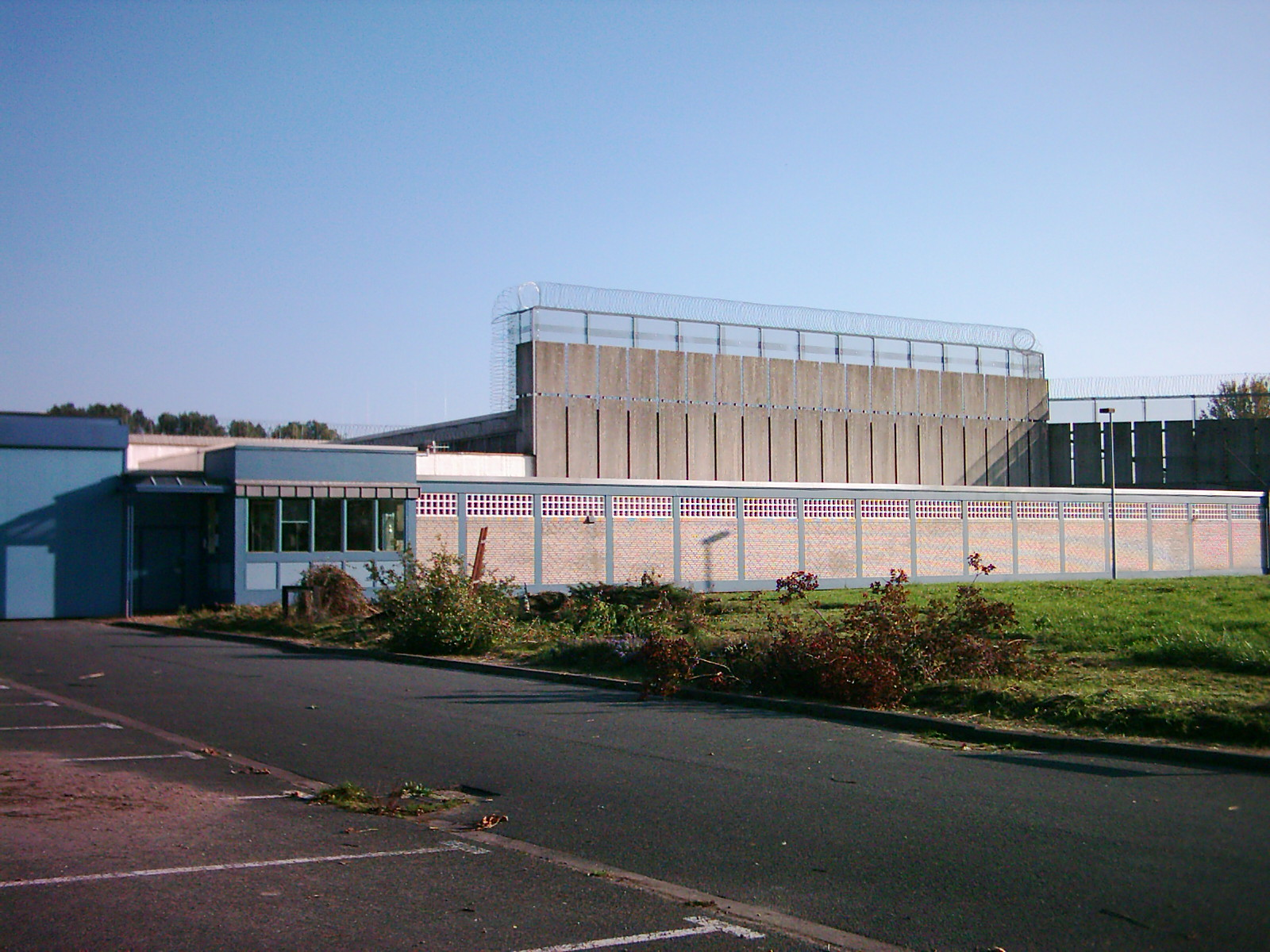 The former correctional facility in Hamburg-Neuengamme, Germany.